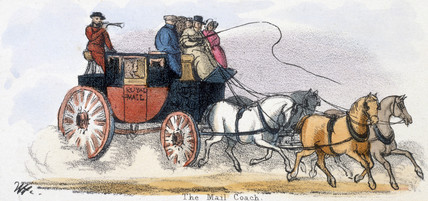 Vignette from a lithographic plate showing a mail coach pulled by horses. Taken from 'The Horse' in 'Graphic Illustrations of Animals - Showing Their Utility to Man in Their Employment During Life and Uses After Death' (1845), a book illustrated by Benjamin Waterhouse Hawkins. The improvement of the rail network in the mid 18th century led to the introduction of the mail coach in 1784, providing a combined pasenger and mail delivery service. Mail was stowed both in the foreboot beneath the coachman's feet and in the rear compartment. The coach carried four pasengers inside and four more on top behind the the driver. Fares were paid to innkeepers at coaching inns along the route. Printed by J Graf. Published by Thomas Varty.